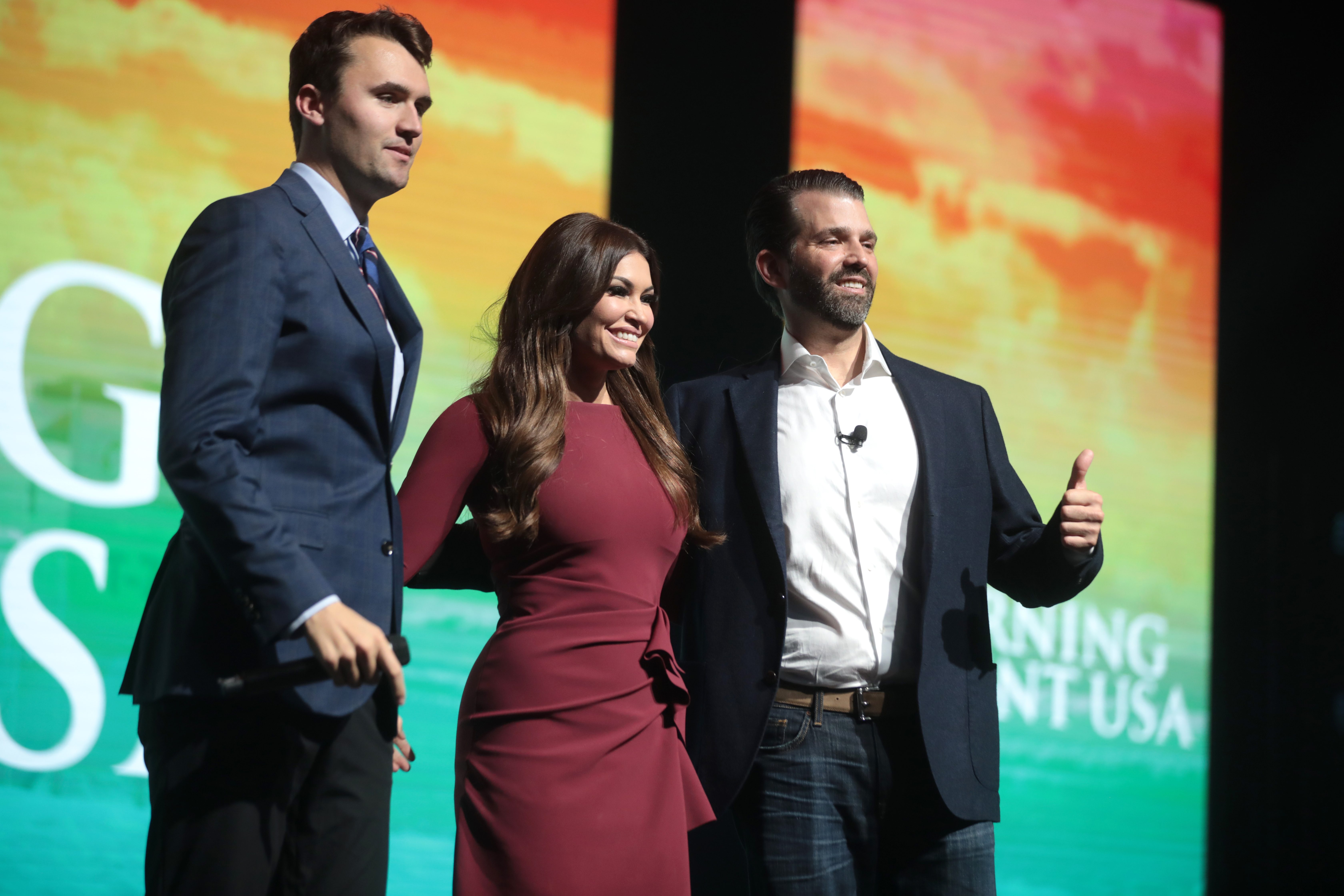 Charlie Kirk, Kimberly Guilfoyle and Donald Trump, Jr. speaking with attendees at the 2019 Student Action Summit hosted by Turning Point USA at the Palm Beach County Convention Center in West Palm Beach, Florida.